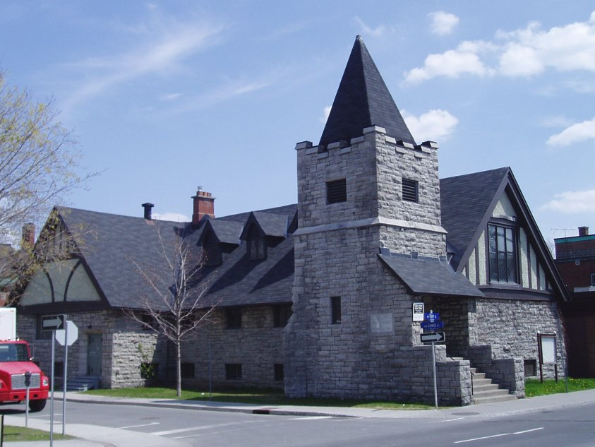 Taken by SimonP in April 2005